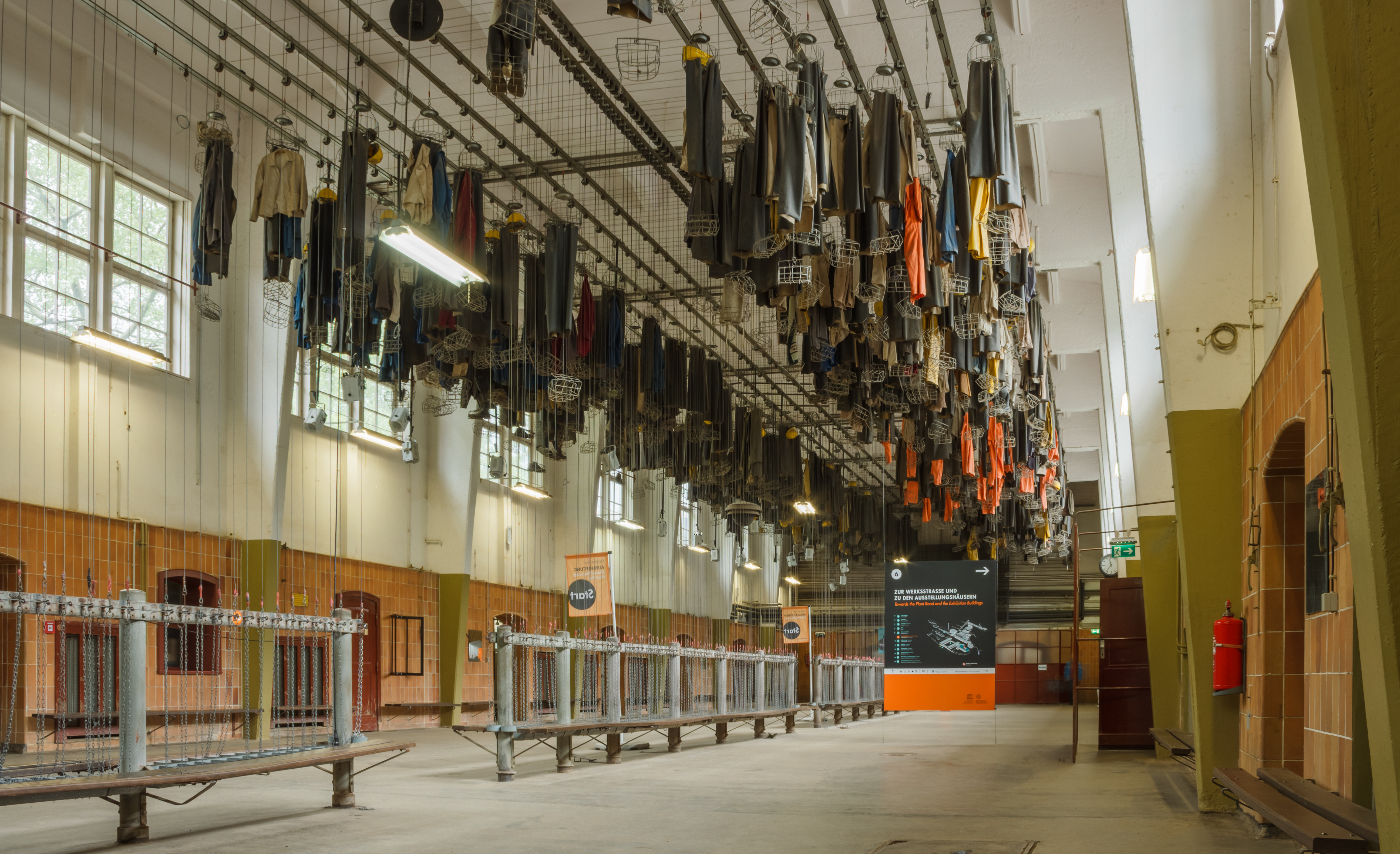 Miners' change room in Rammelsberg Mining Museum, Lower Saxony, Germany